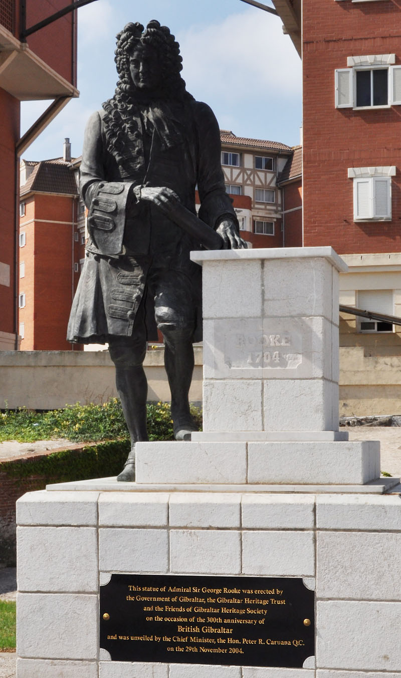 Statue of Admiral George Rooke who captured Gibraltar in August 1704